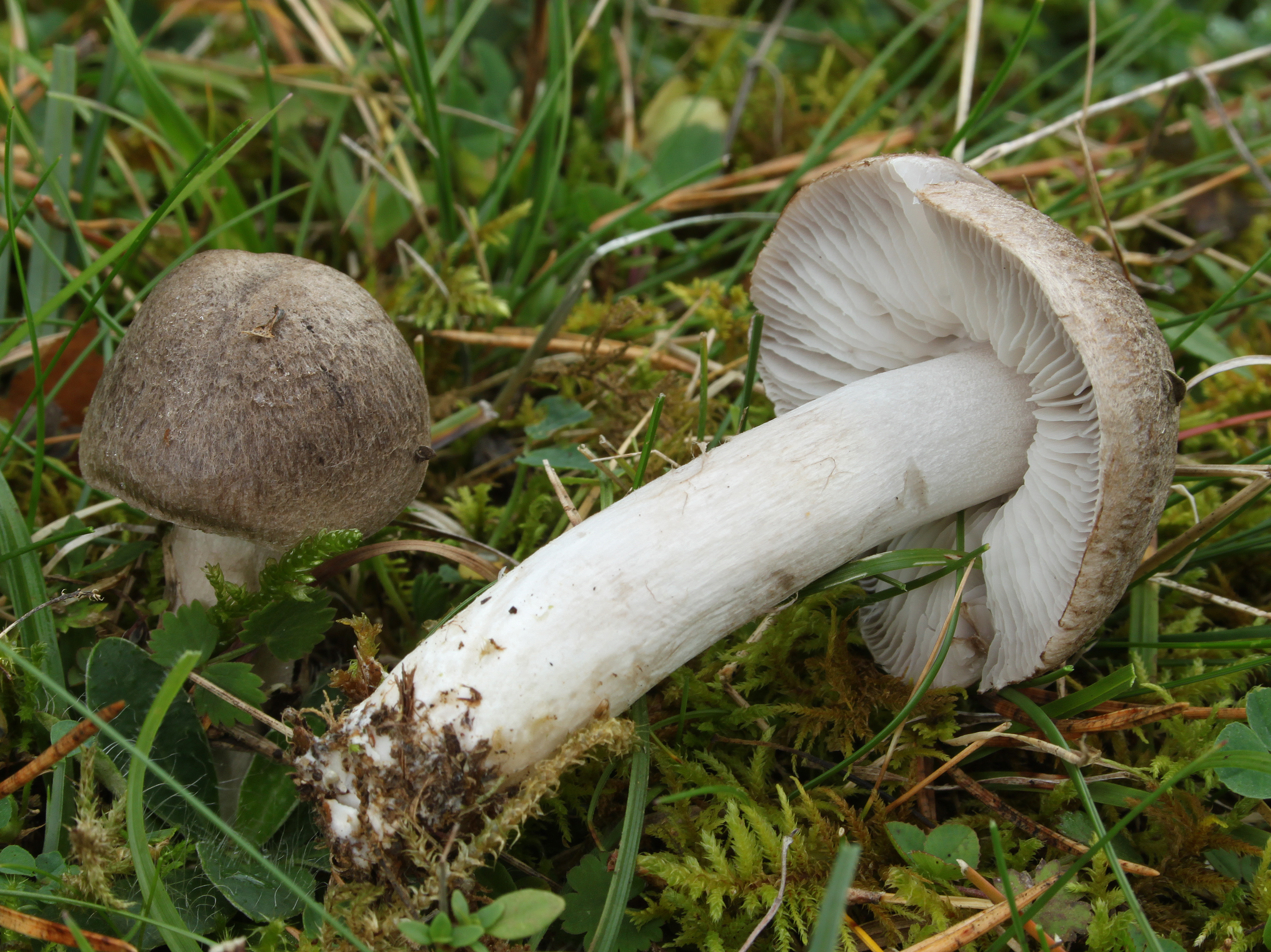 Grey Knight or Dirty Tricholoma, Tricholoma terreum, Family: Tricholomataceae, Location: Germany, Ehingen